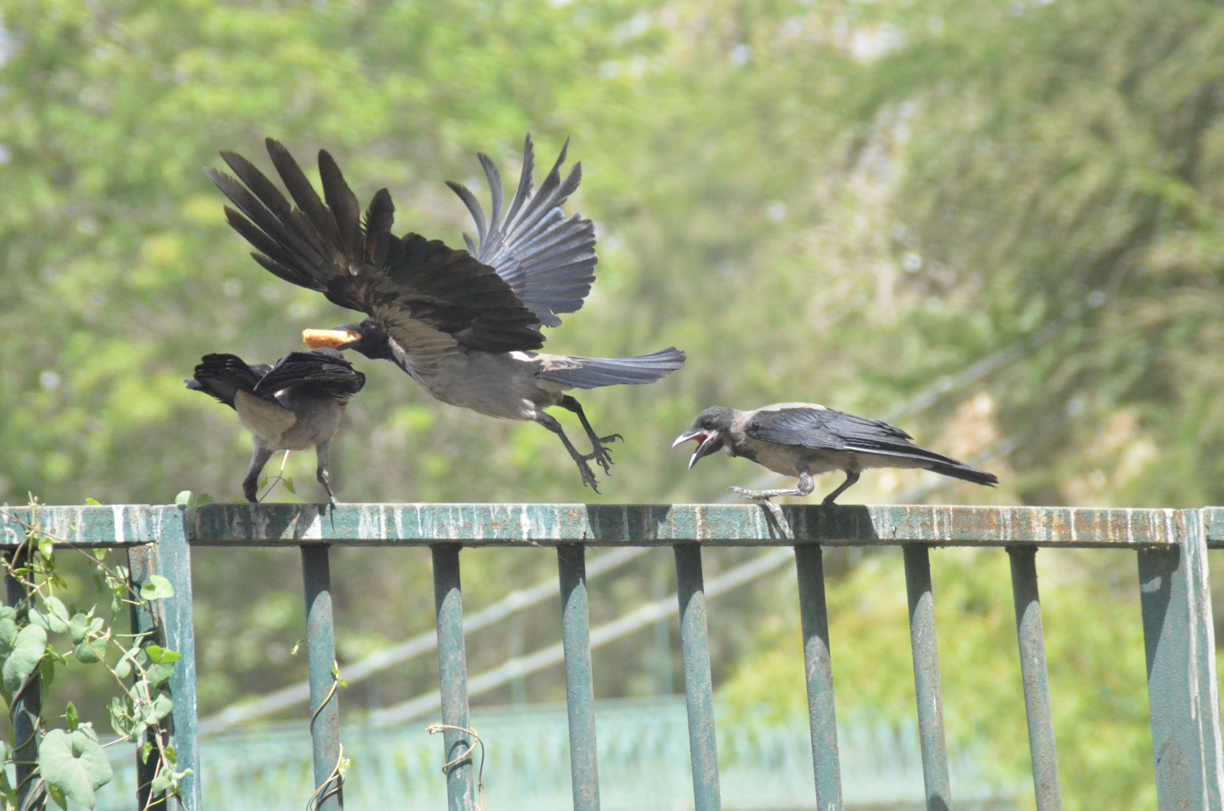 Hooded crow at Giza Zoo